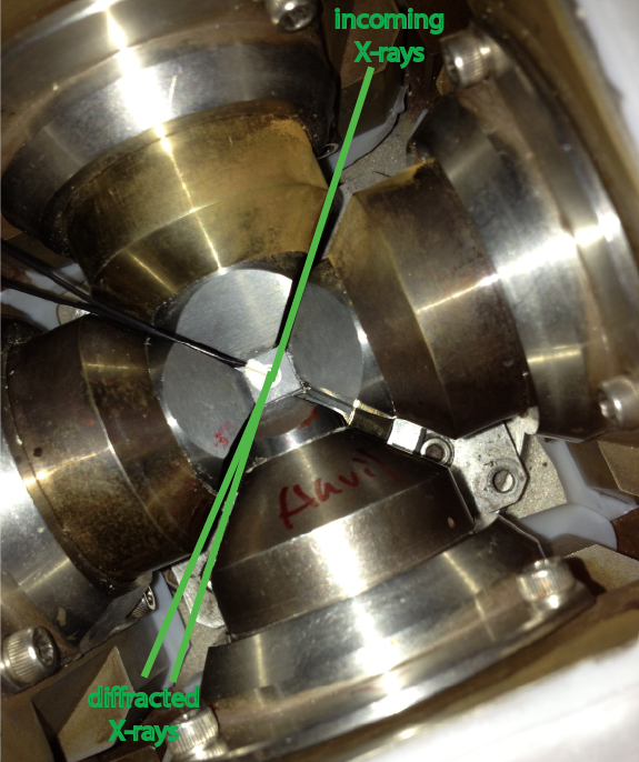 Photo of D-DIA showing the four horizontal anvils and the X-ray path through the sample.